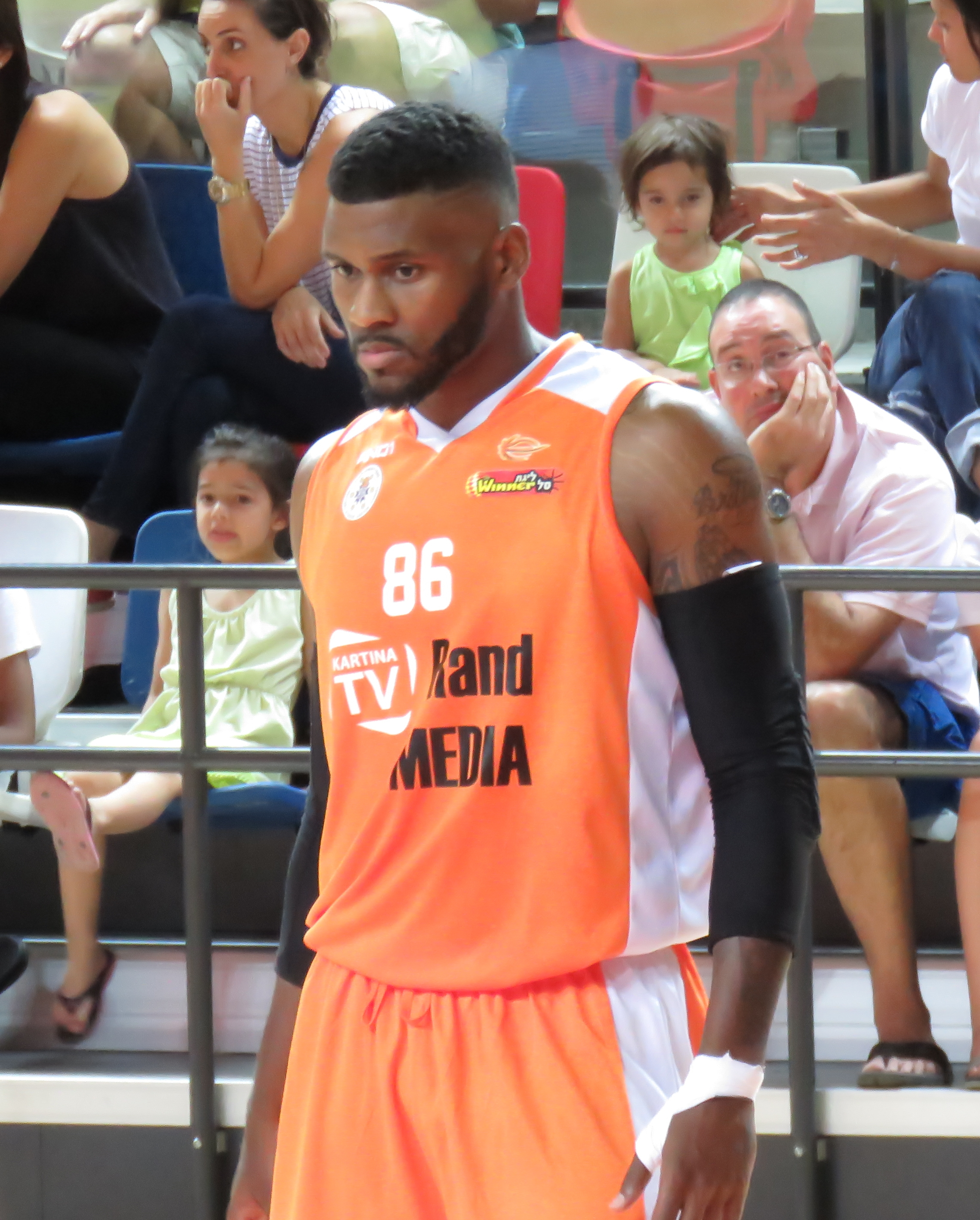 Maccabi Rishon LeZion vs. Maccabi Tel Aviv B.C., 26 September, 2015